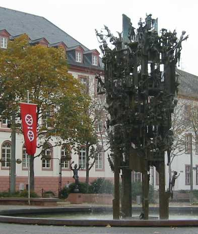 Mainz, carnival fountain, in cultural heritage zone Schillerplatz, displaying symbols of the carnival season.